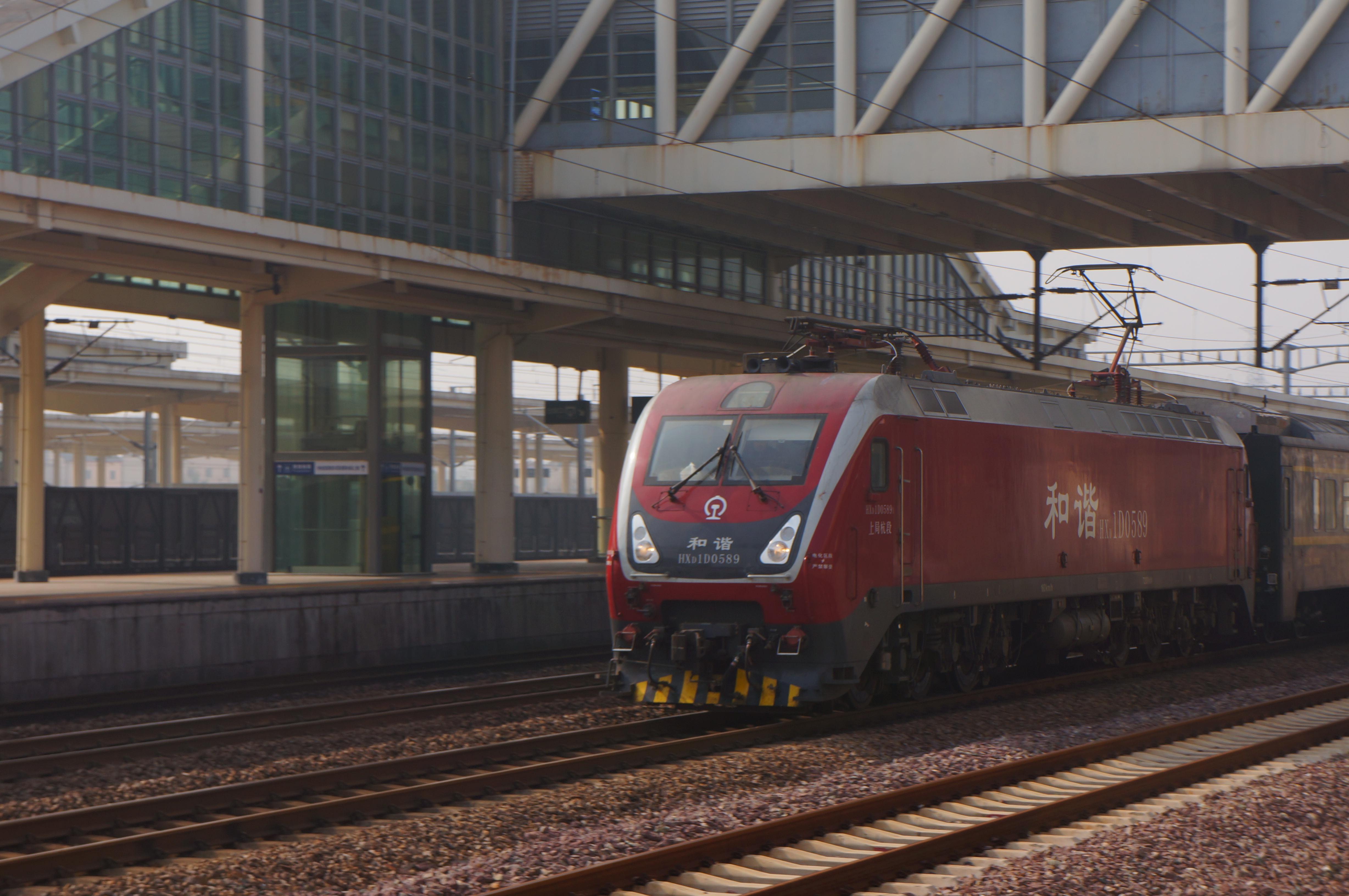 201712 HXD1D-0589 hauls Z288 passes Quzhou Station